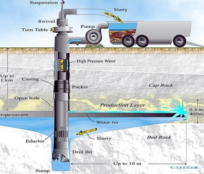 This is an illustration of borehole mining (BHM) water/slurry circulation and major components of the BHM tool and technology including tool operation, ore and rock water-jet cutting, slurry preparation and pumping it out, separation of cuttings from the slurry on the surface and finally recycling the clarified water.